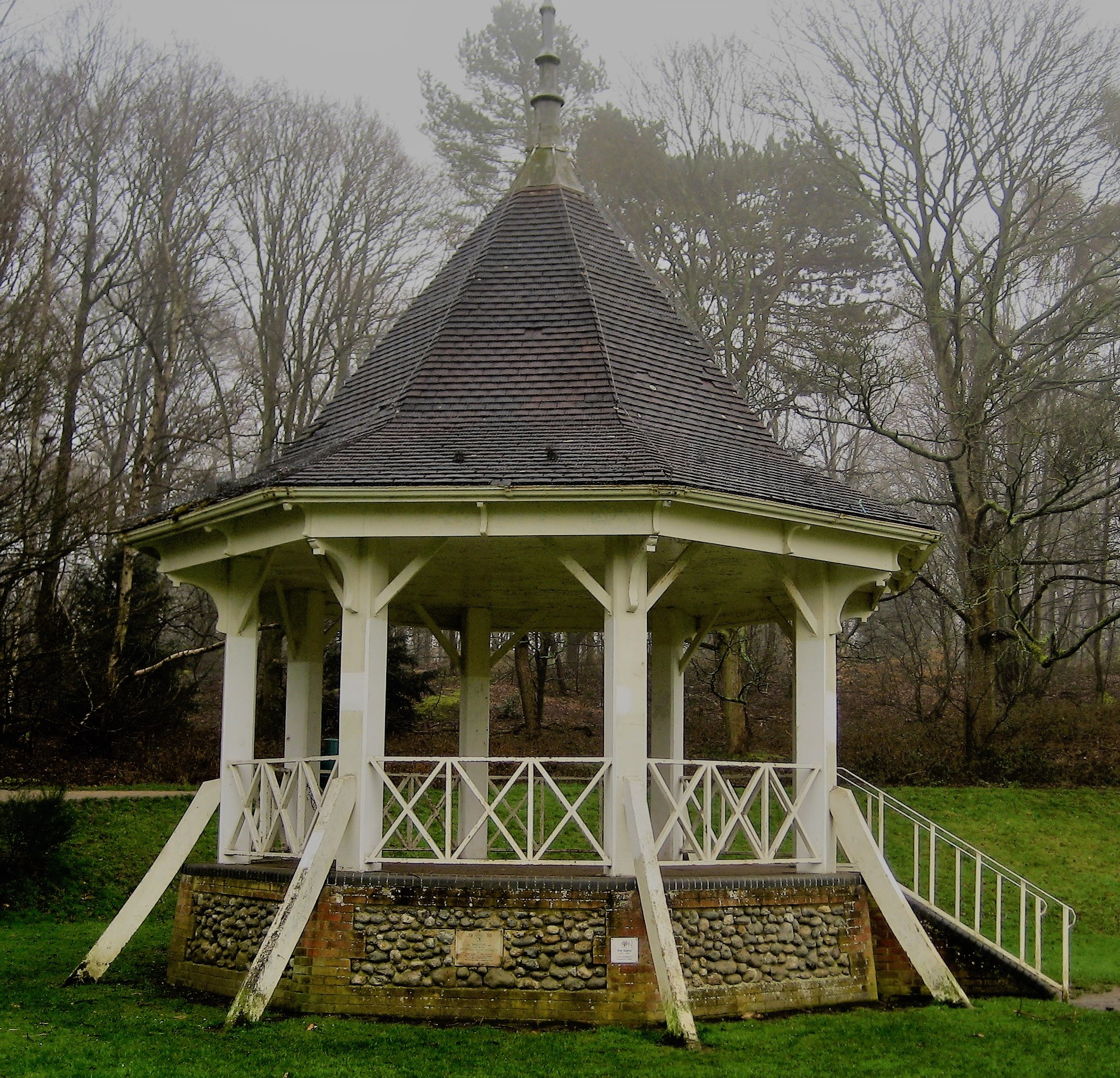 The bandstand, rebuilt in 1992 to replace a demolished stand